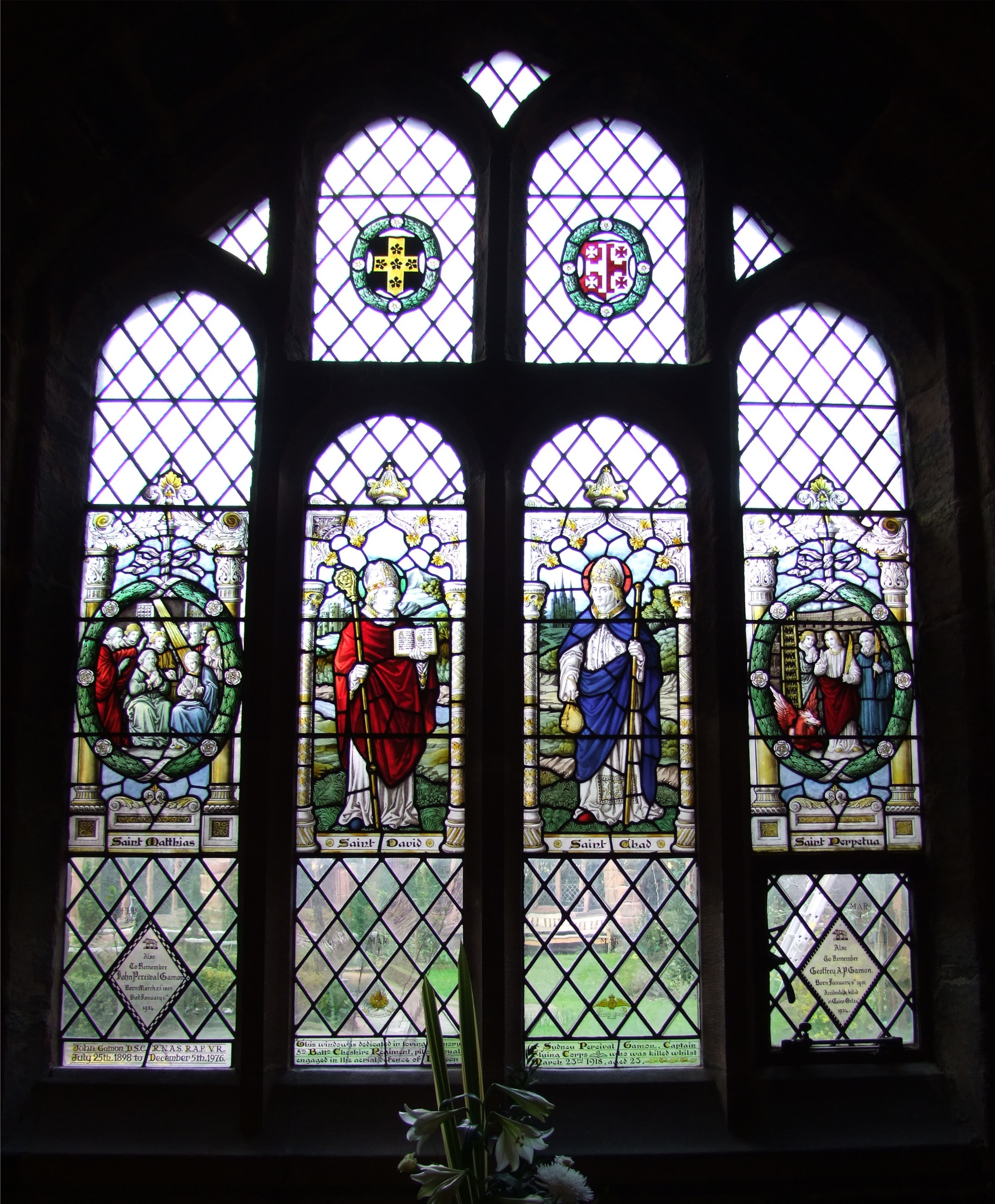 Stain Glass Window